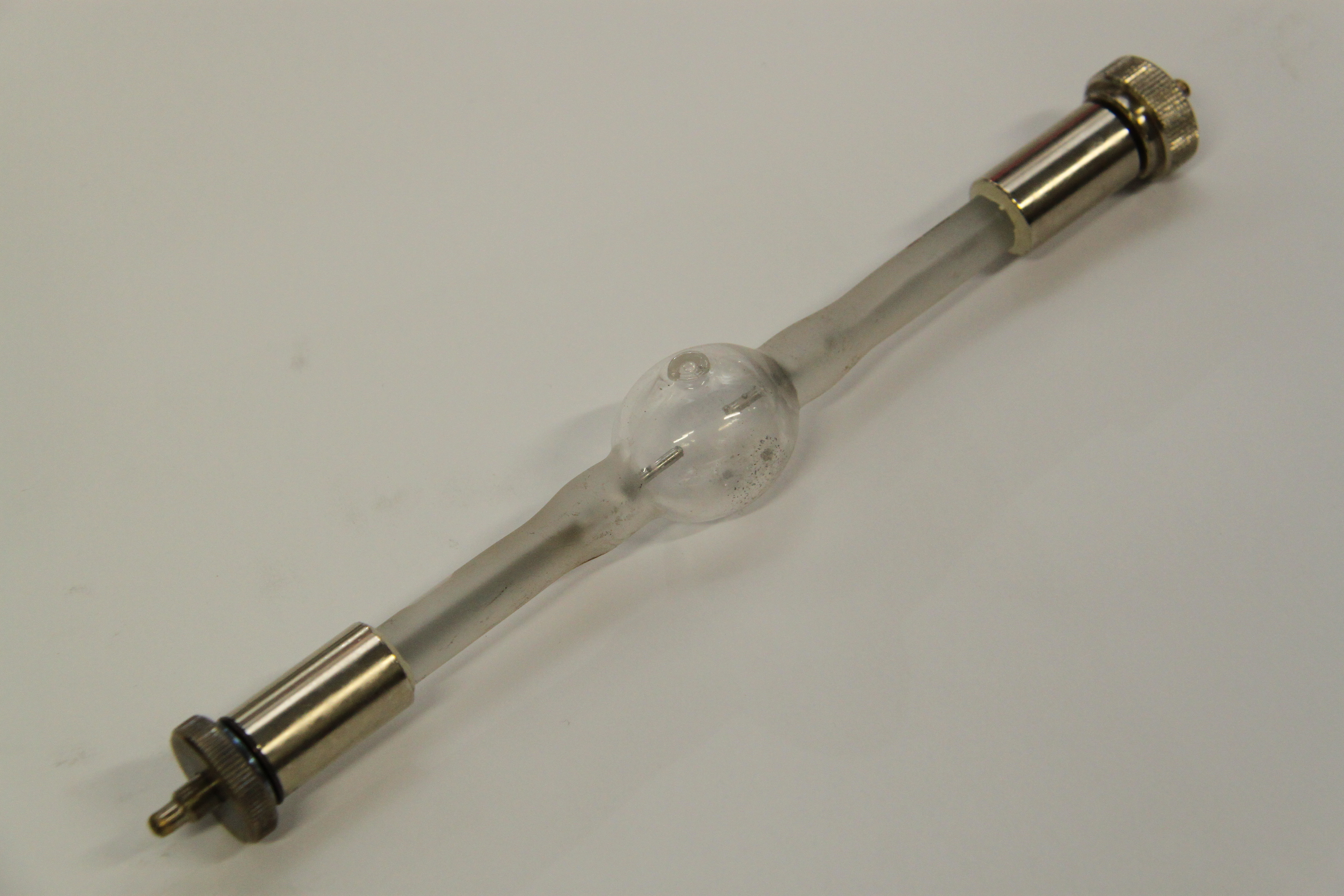 OSRAM HMI lamp (Hydrargyrum medium-arc iodide lamp) 18 kW, double-ended.